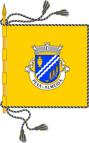 Peva (Almeida) flag